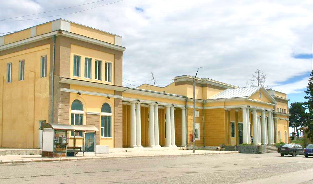 Gori railway station